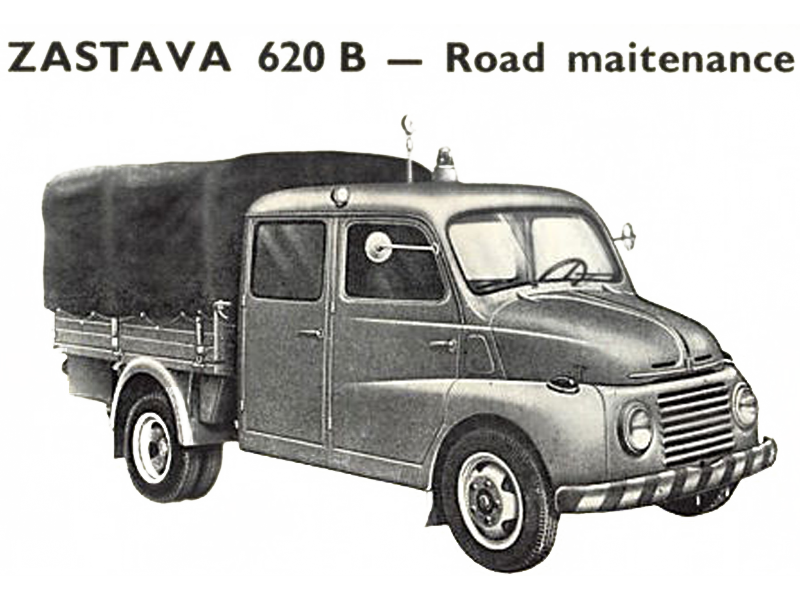 Zastava 620B double cab light truck, version specialized for road maintenance.